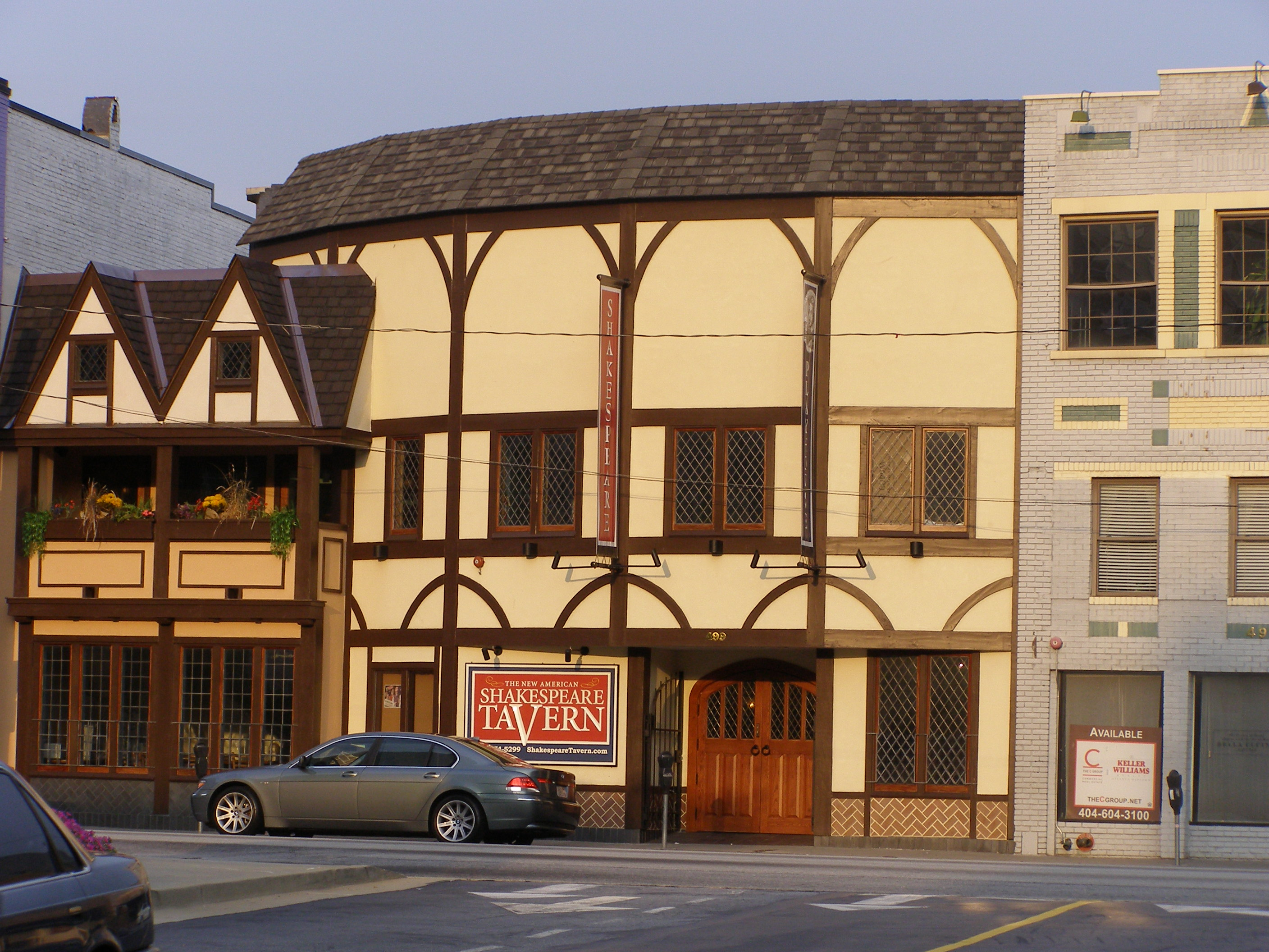 The Atlanta Shakespare Company New American Shakespeare Tavern in Atlanta, GA